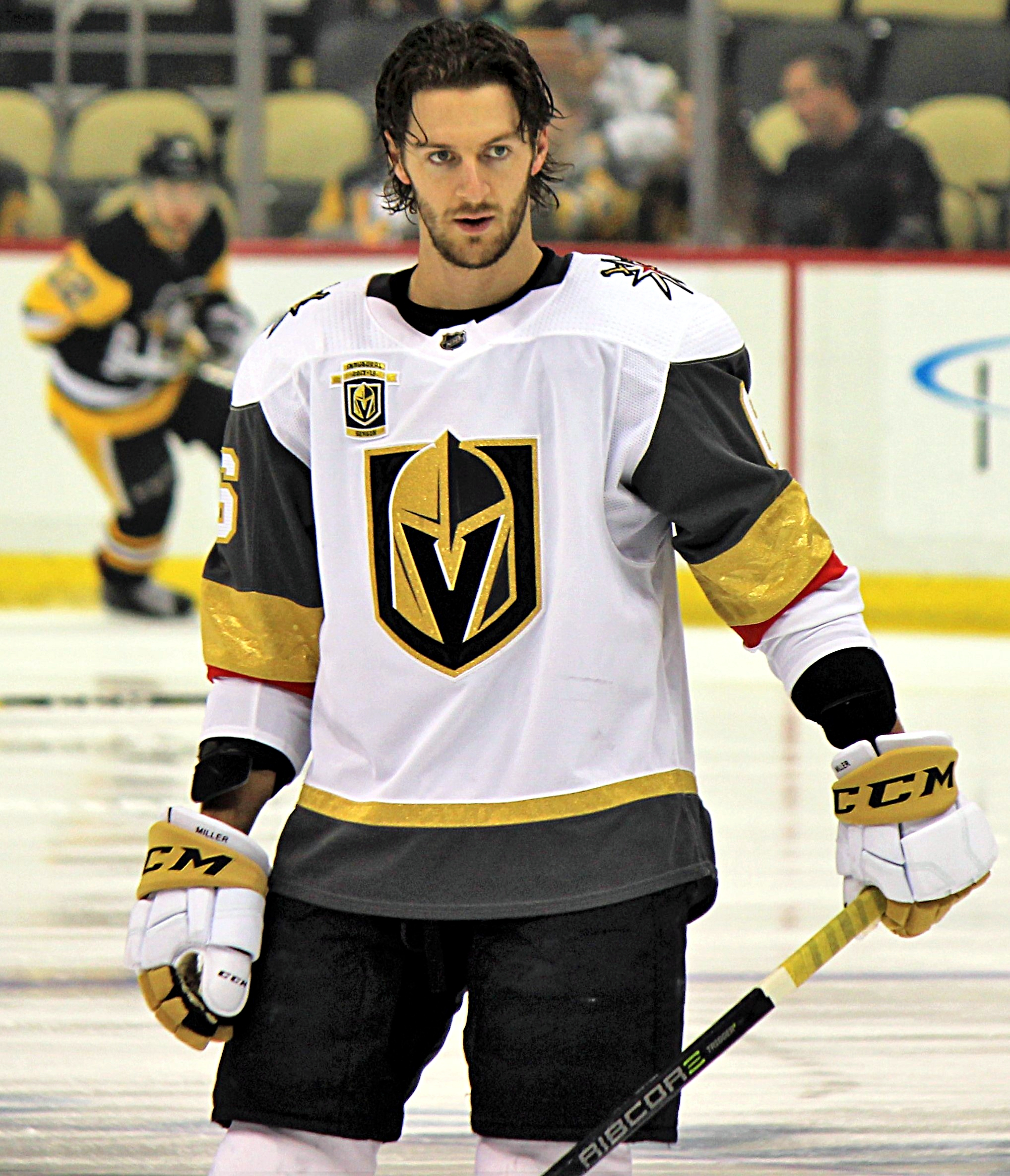 Vegas Golden Knights defenseman Colin Miller during a game against the Pittsburgh Penguins, February 6, 2018, at PPG Paints Arena in Pittsburgh, PA.